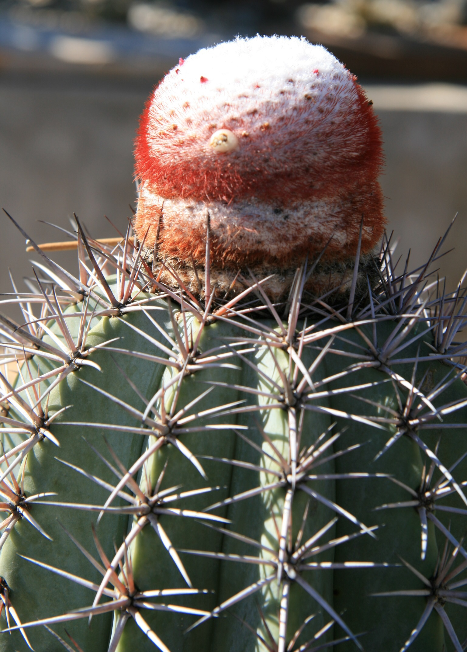 Plant from type locality, with white fruit, Bahia, Brasil